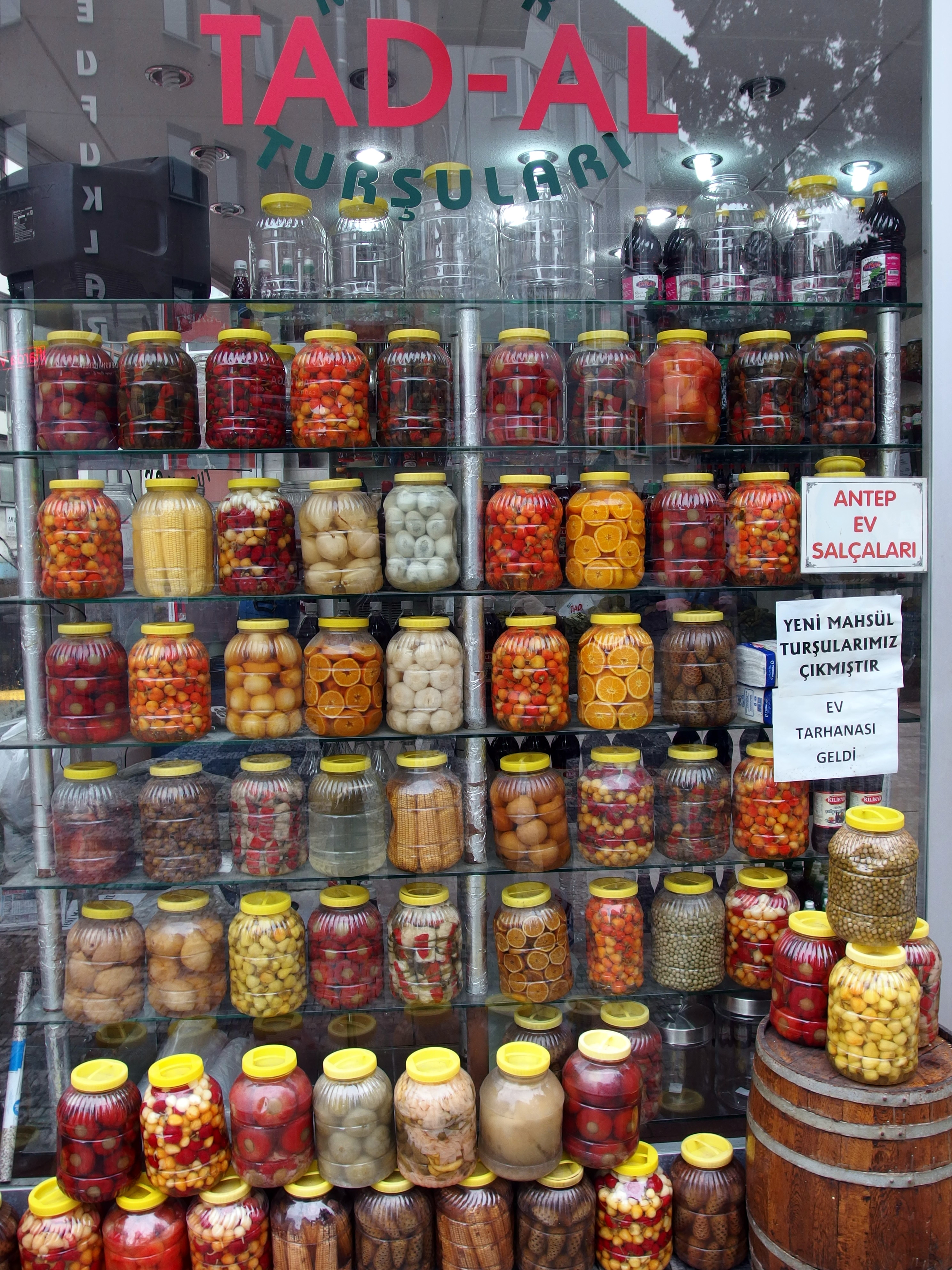 2013-12-07 in Istanbul.